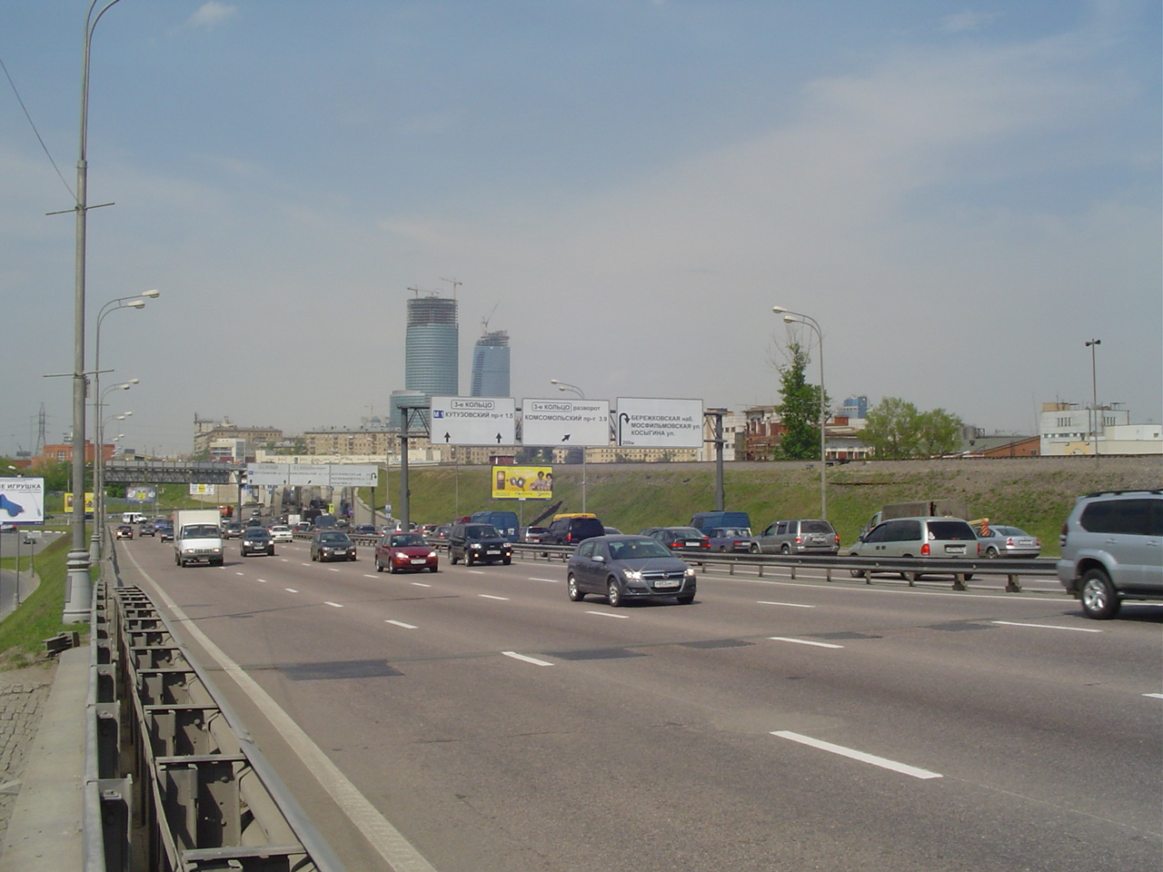 View of Moscow's Third Ring